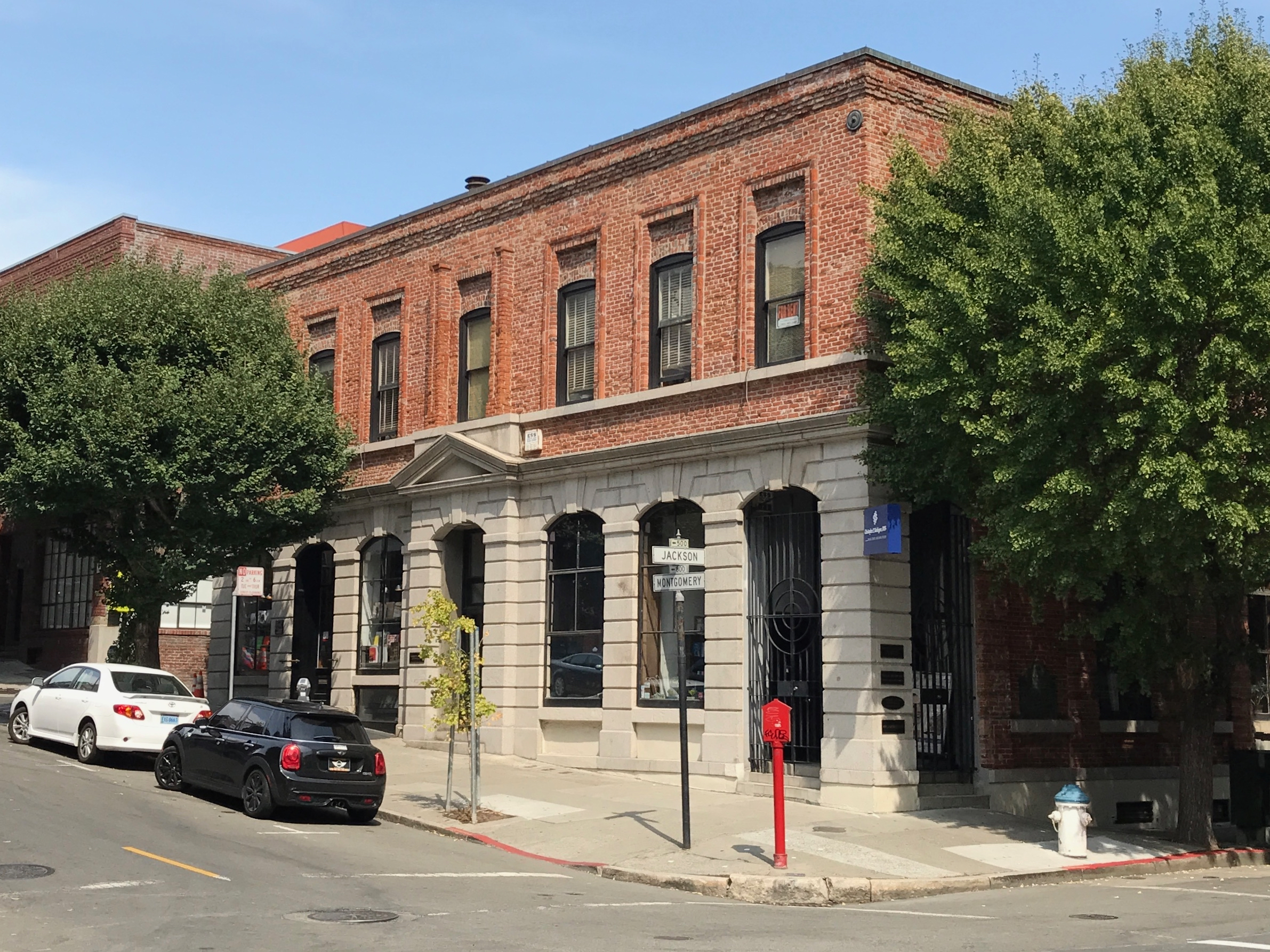 800-804 Montgomery St., on the list of San Francisco Designated Landmarks.